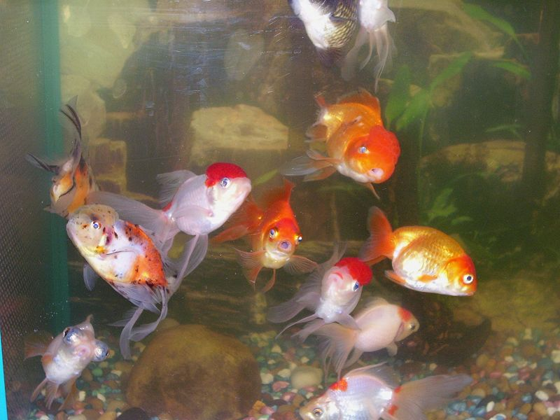 Category:Goldfish images (Original text: 'A School of Fancy Goldfish.)